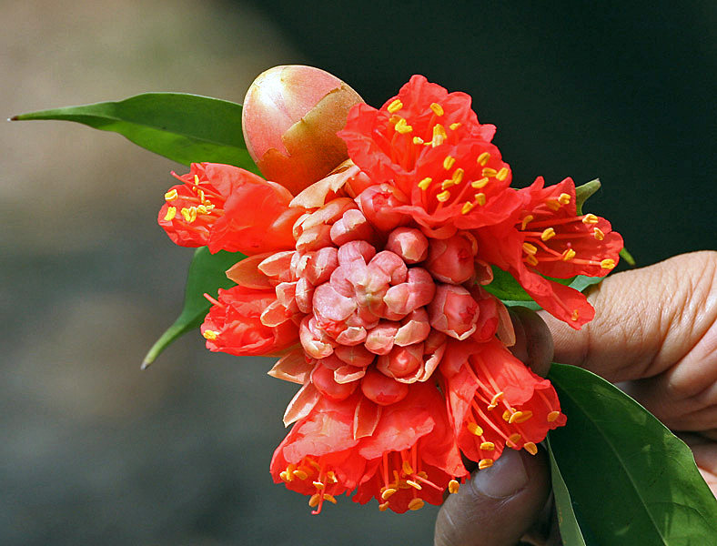 =(West Indian Mountain Rose) Brownea coccinea in Kolkata, West Bengal, India.